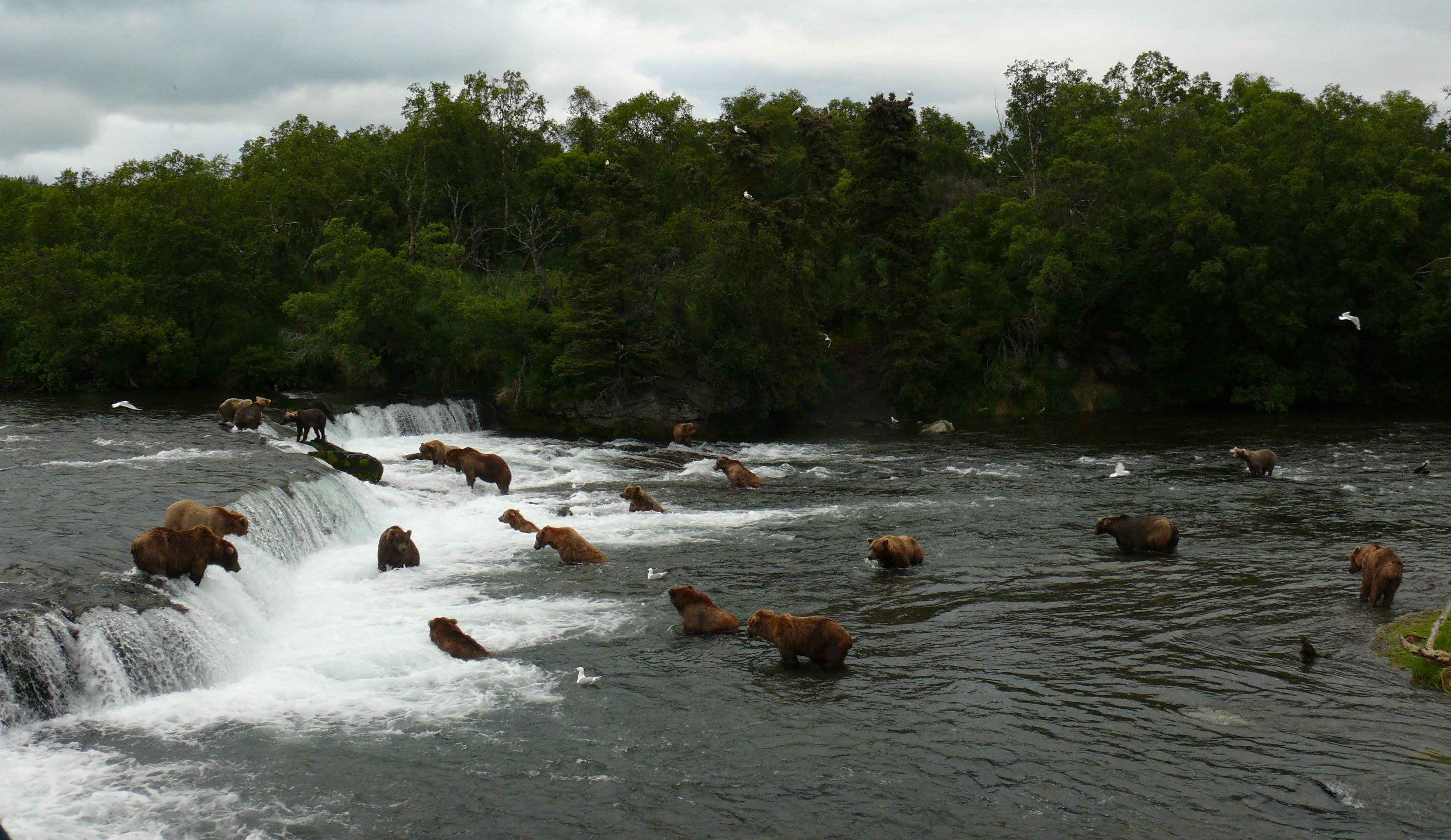 "For a few weeks each summer, brown bears gather to feed on sockeye salmon at Brooks Falls."